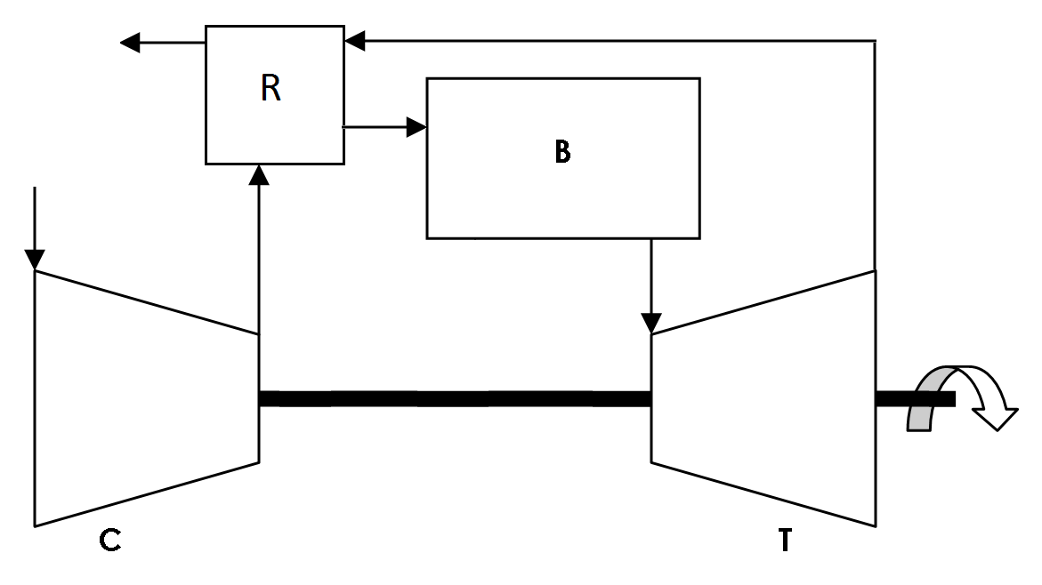 Simplified gas turbine with recuperator